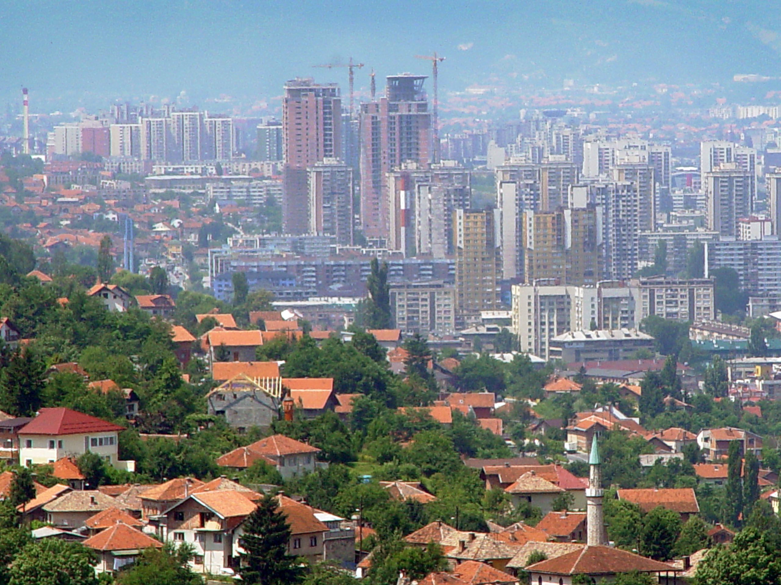 Bosmal city center in Sarajevo.